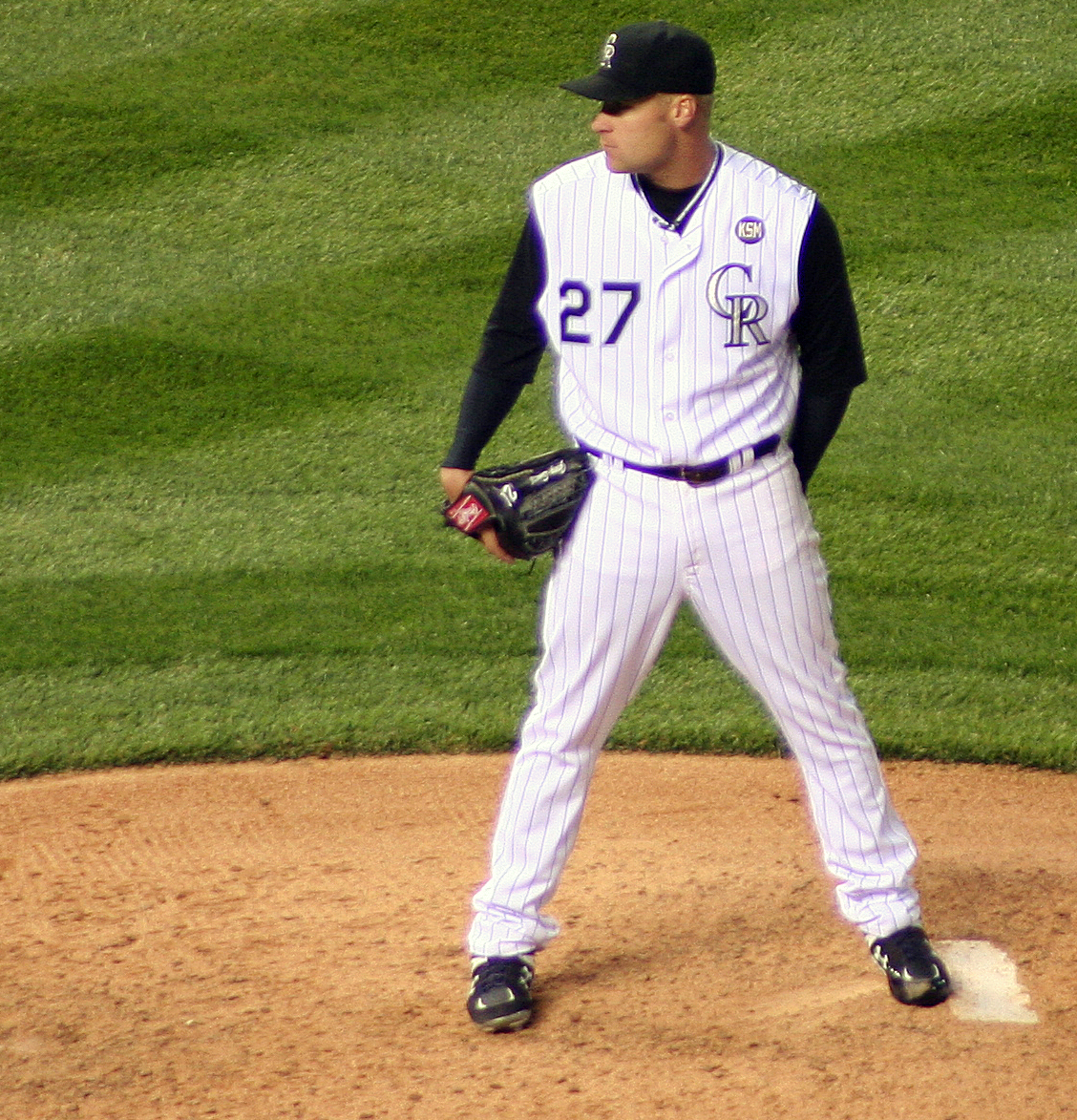 Greg Smith, a pitcher on the Colorado Rockies baseball team.